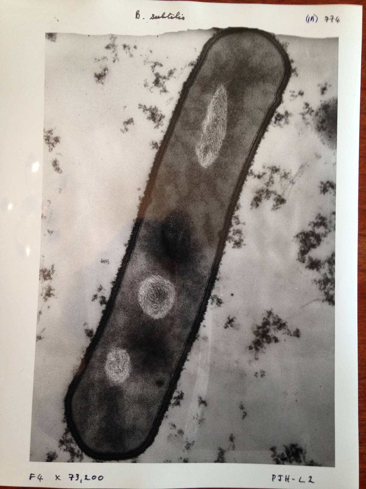 An electron-micrograph of a section of the bacterium Bacillus subtilis (x73,200). This is a rod-shaped single cell organism, and the section is a slice (about 50nm thick) through the cell, containing the central axis of the cell.